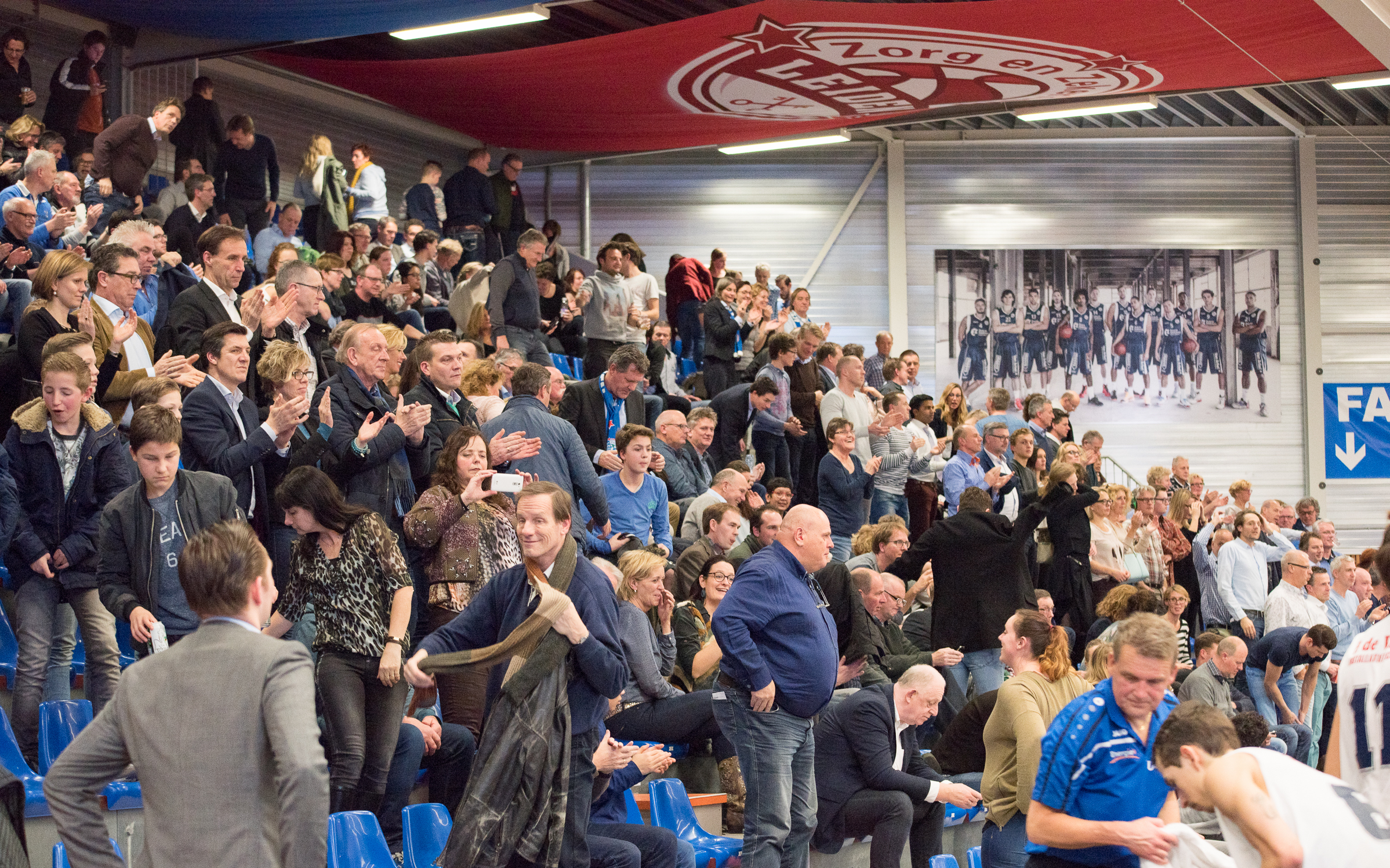 Fans of ZZ Leiden, during a game in the 2015-16 season.